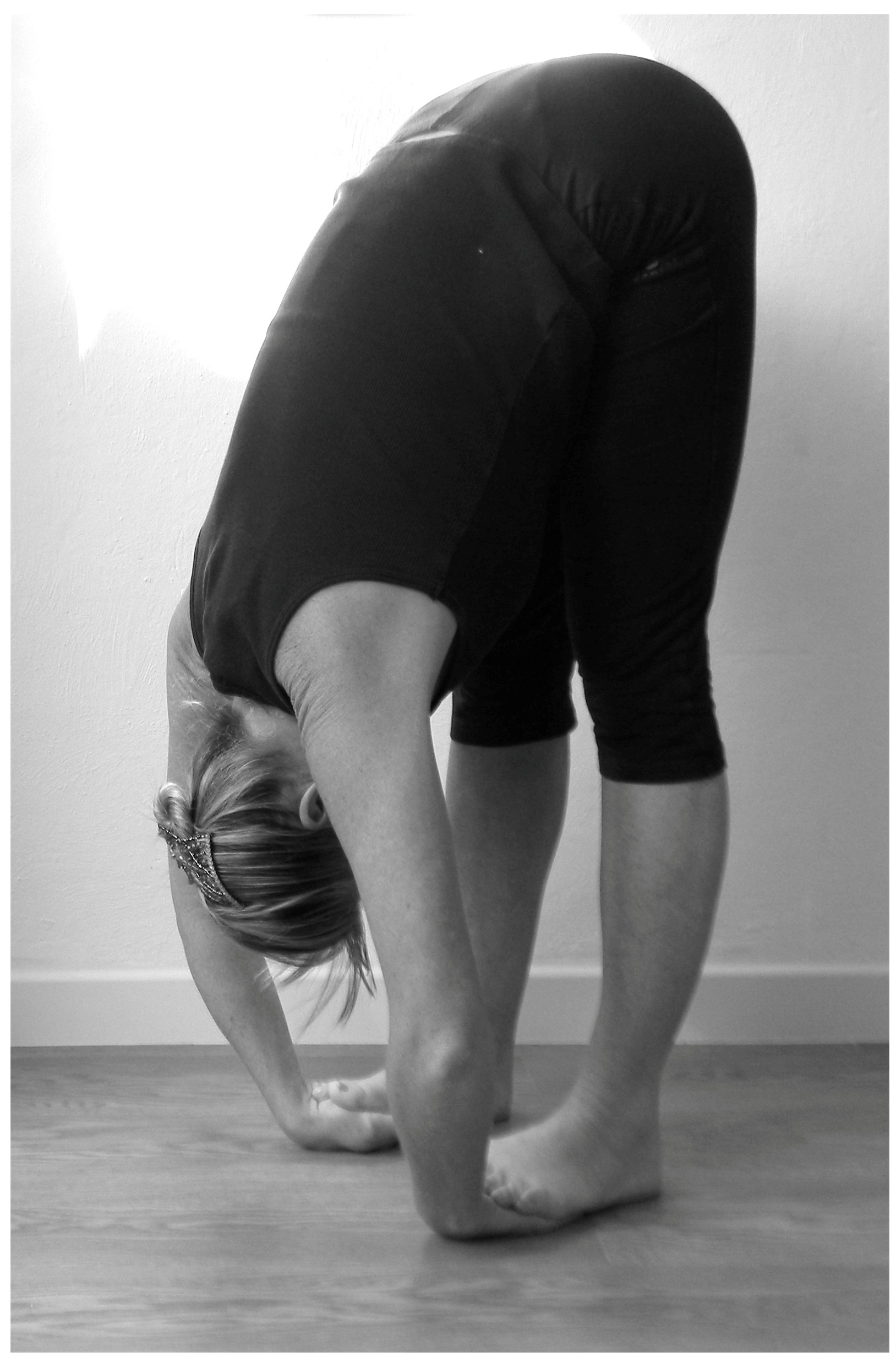 Padahastasana is a yoga posture in which one bends forward, sliding ones hands under respective feet for a maximum stretch of the lower back.